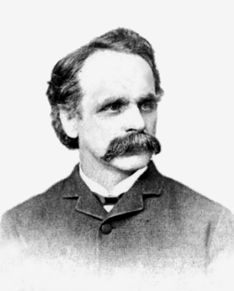 Edwin Dickens. Image from Sunset publication. Volumn IV November 1899 to April 1900. Southern Pacific Company